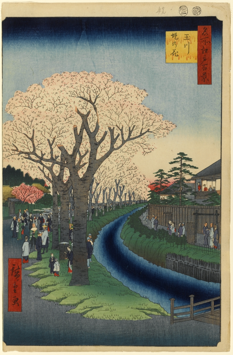 Part of the series One Hundred Famous Views of Edo, no. 042, part 1: Spring.